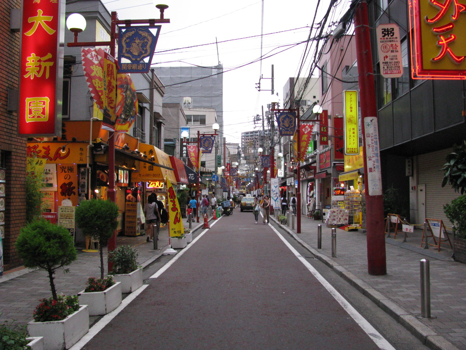 Yokohama Chinatown.